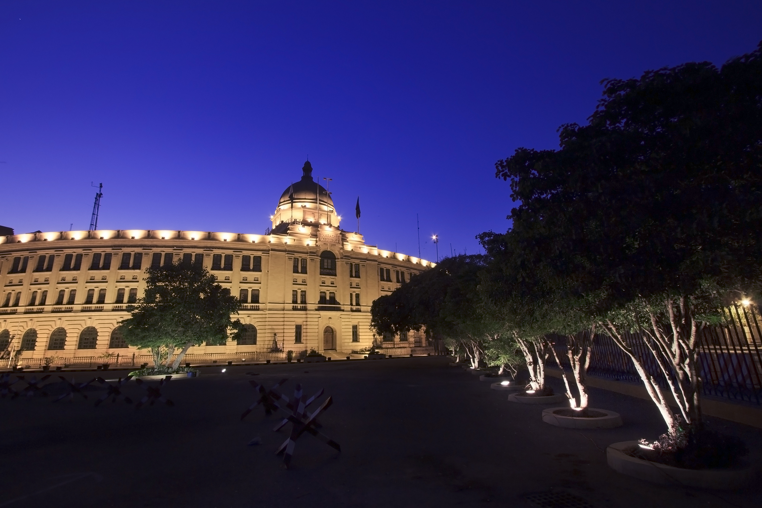 Karachi Port Trust Building This is a photo of a monument in Pakistan identified as the SD-P-29